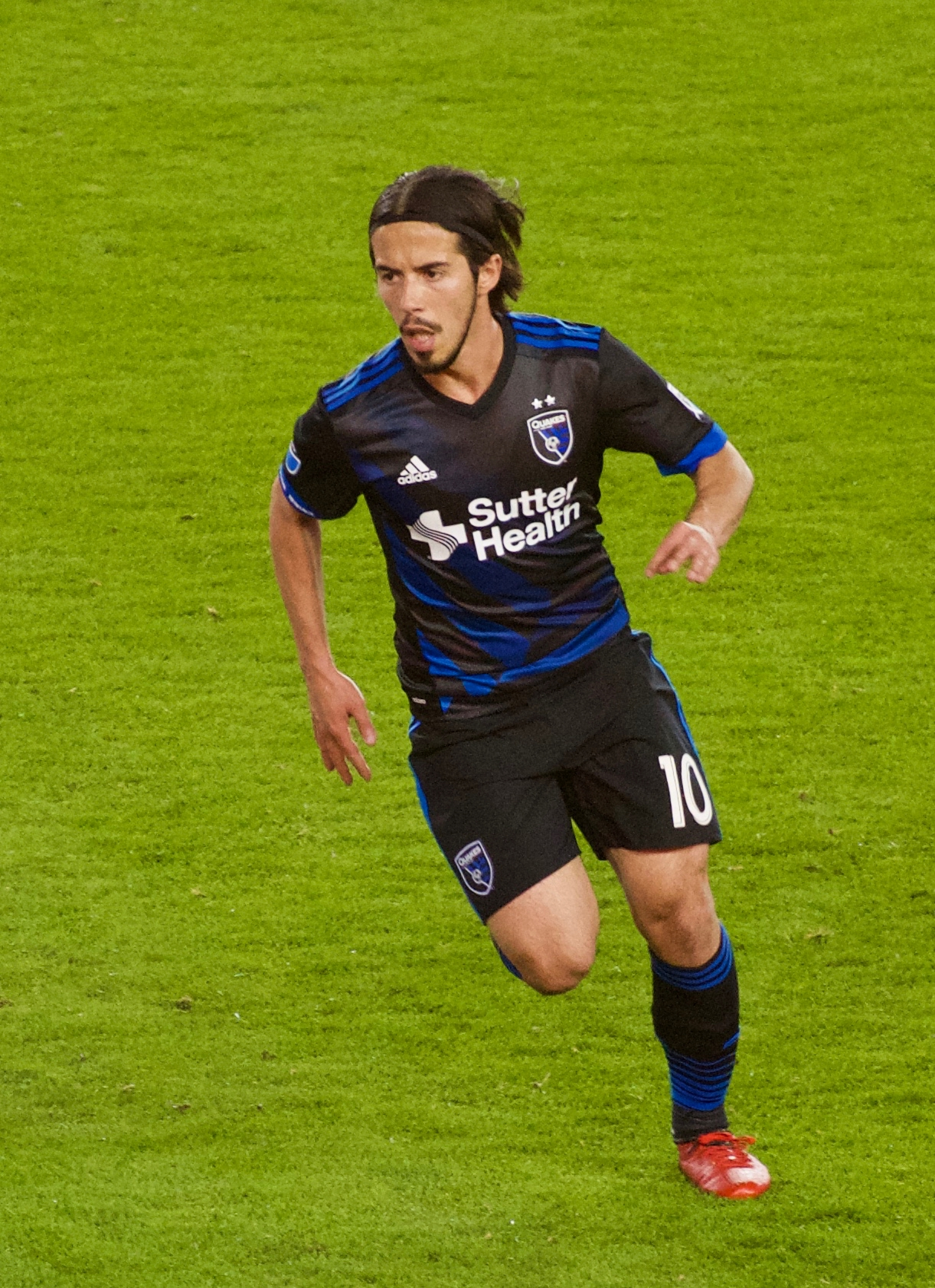 Jahmir Hyka playing for San Jose Earthquakes at Avaya Stadium on 8 April 2017.